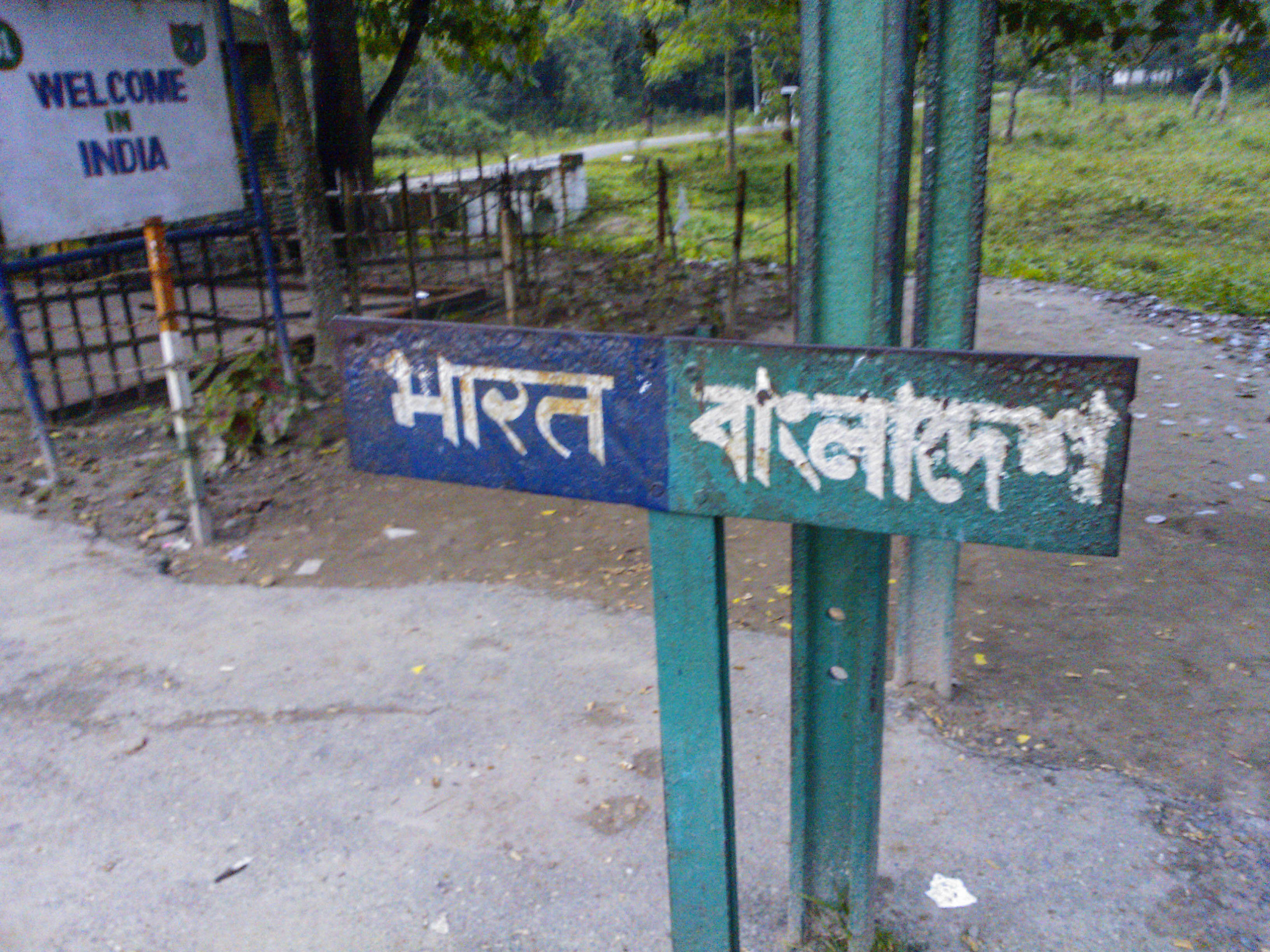 Bangladesh-India Border sign, Burimari. Taken from Bangladeshi side.